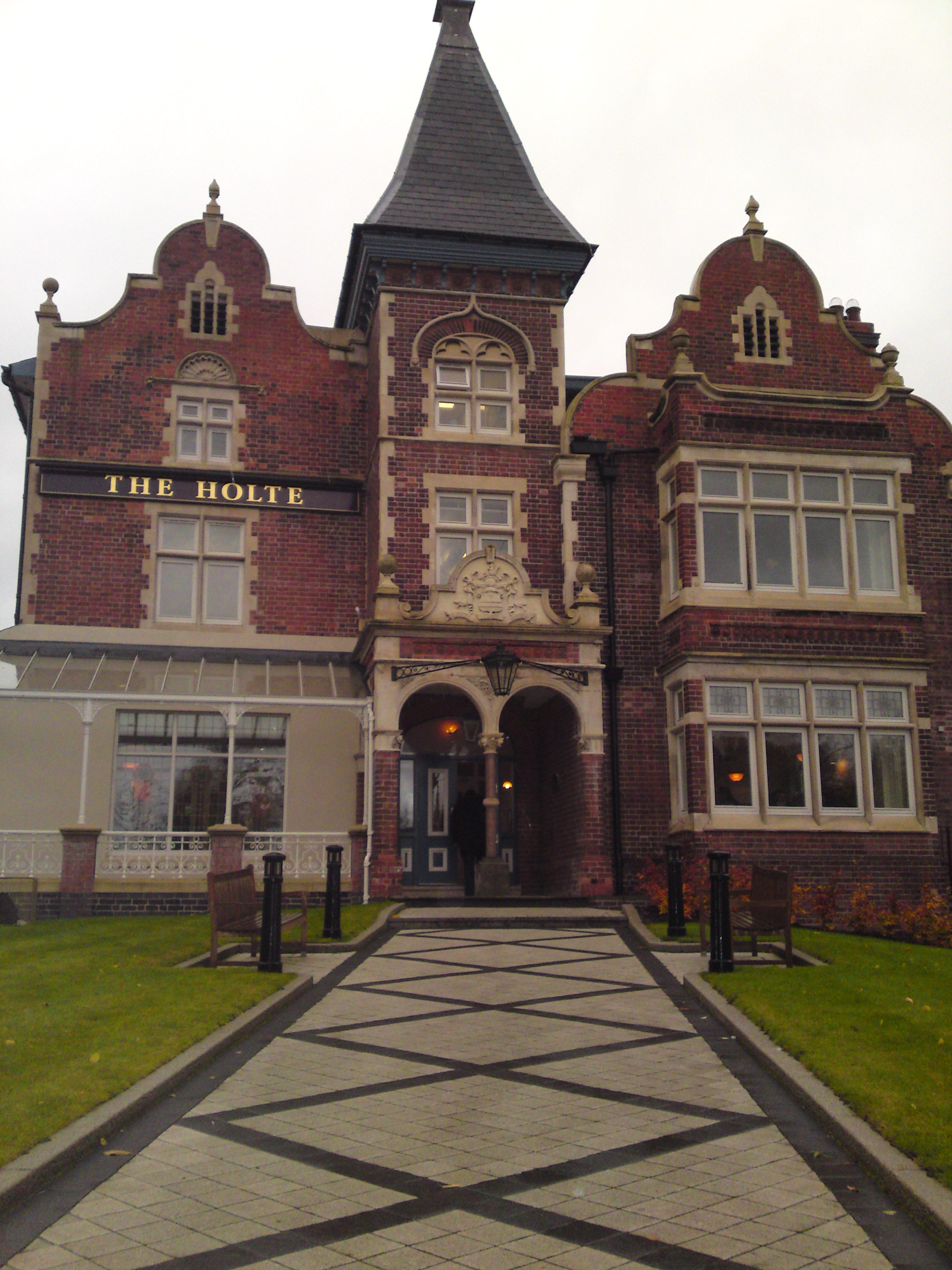 The recently refurbished Holte Hotel, near Villa Park in Birmingham.